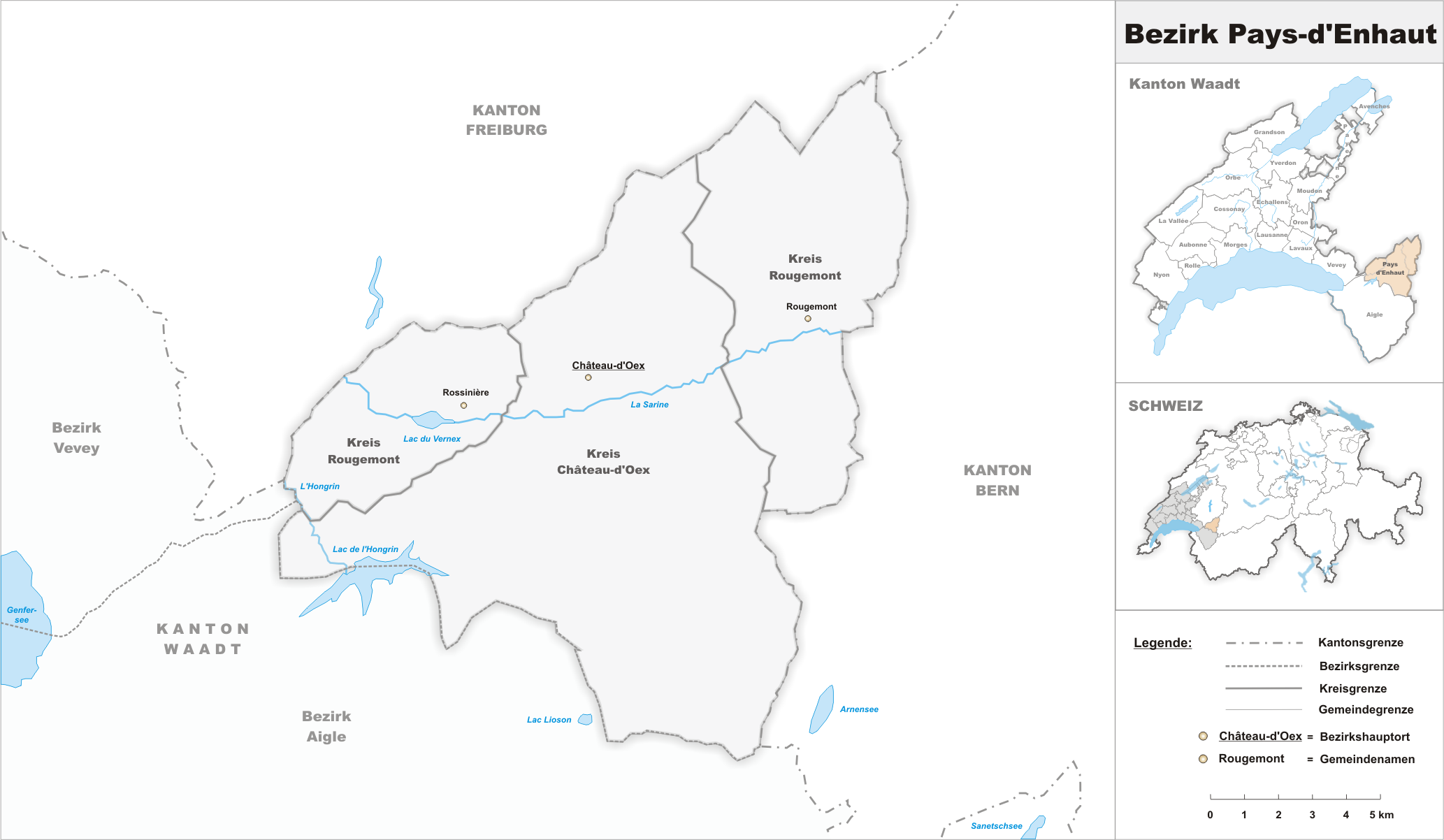 Municipalities in the district of Pays-d'Enhaut